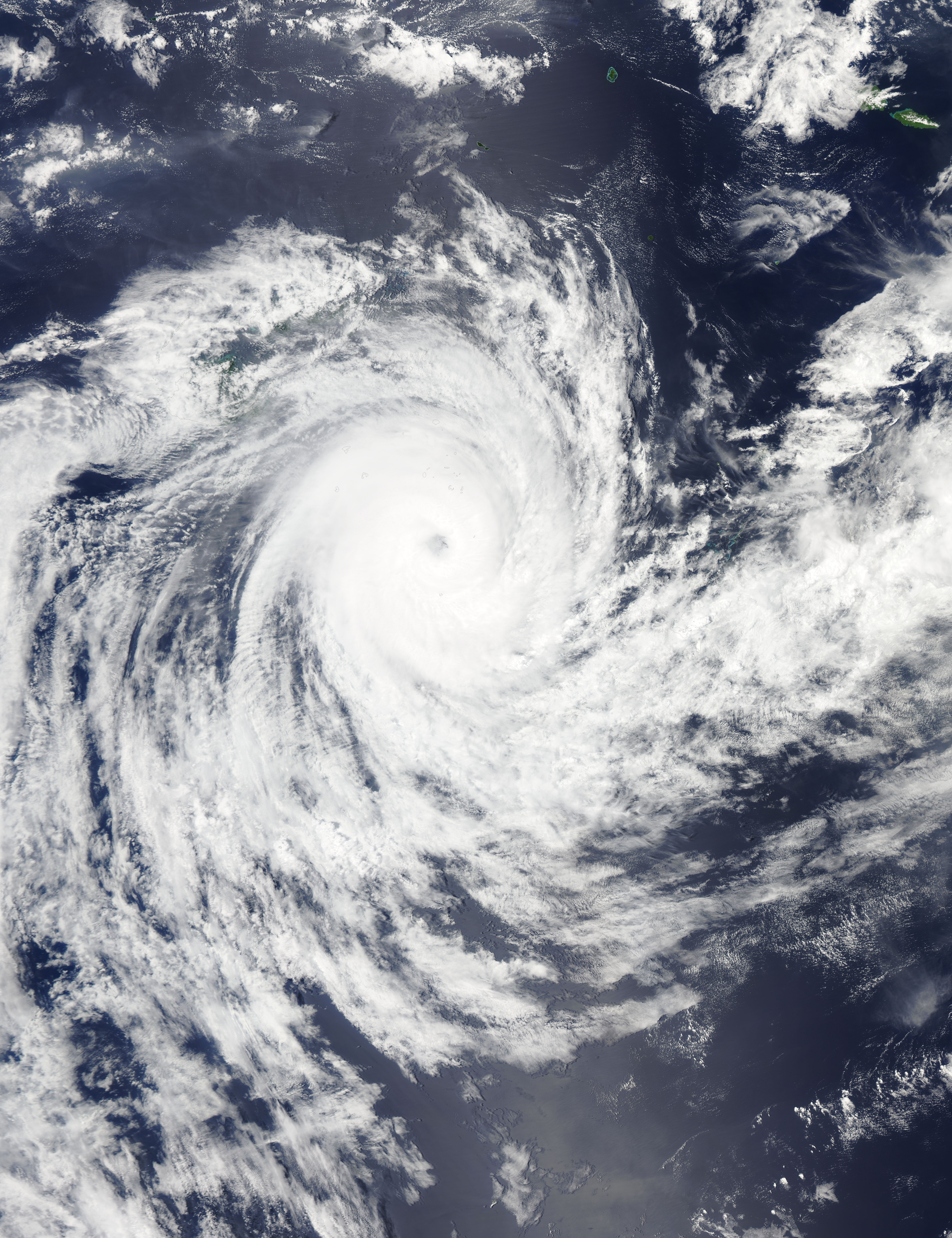 Tropical Cyclone Ula (06P) in the South Pacific Ocean